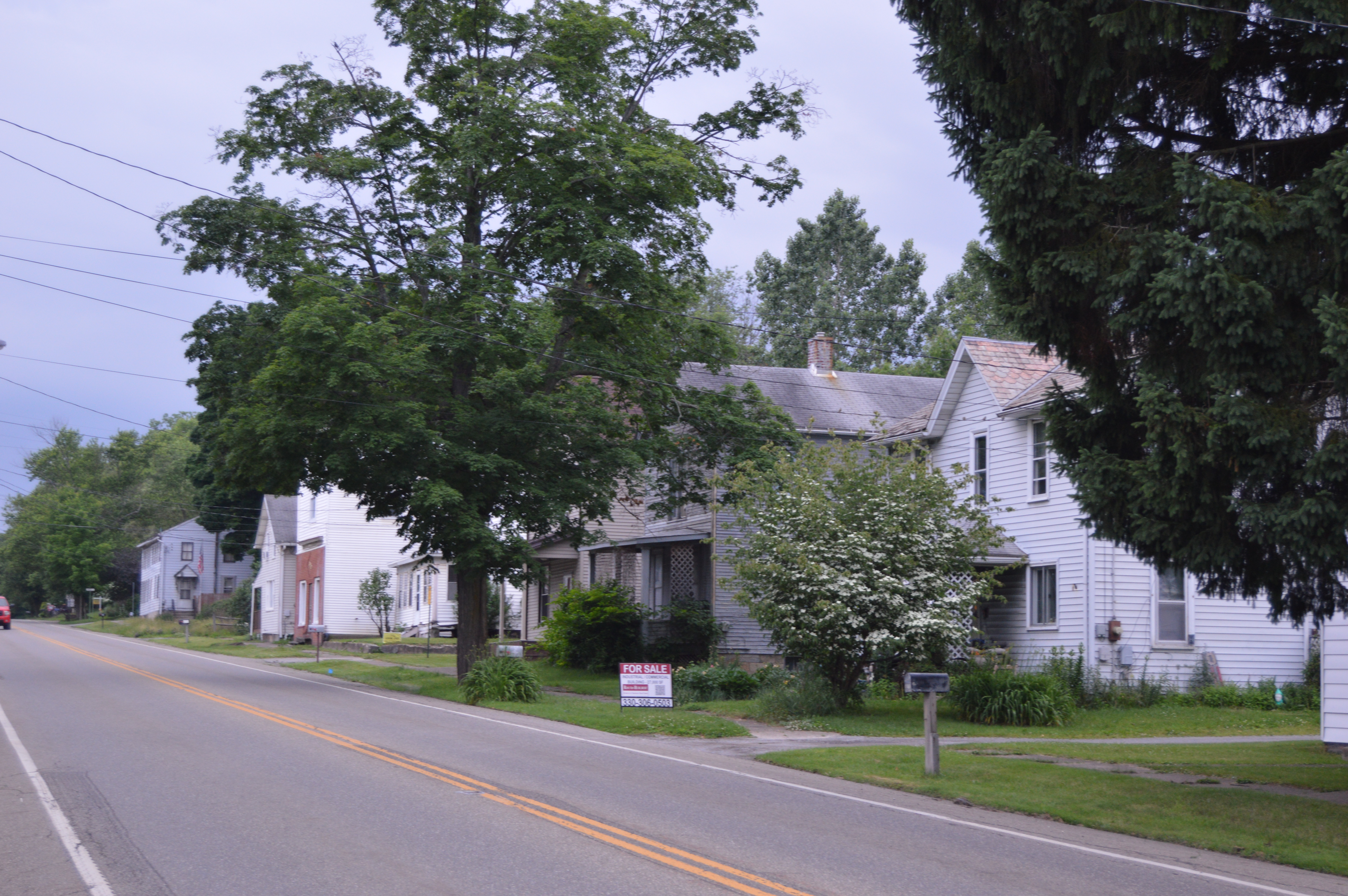 Houses on the northern side of Market Street (State Route 14) in Washingtonville, Ohio, United States. Picture is taken on the Columbiana County side of the street, while the houses are on the Mahoning County side.